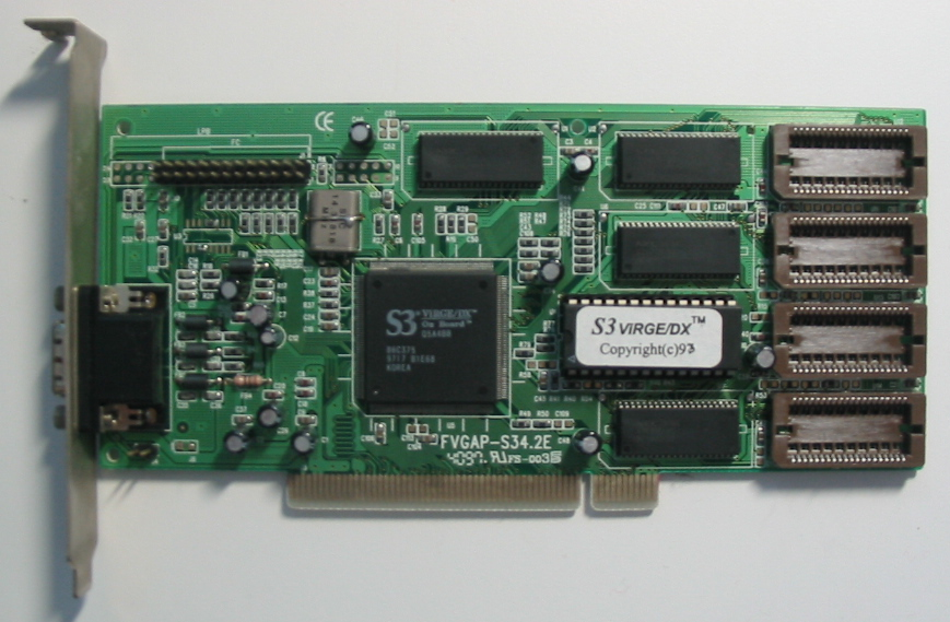 1997年的S3 ViRGE/DX顯示卡，由Wrightbus拍攝。 A 1997 S3 ViRGE/DX PCI display card. Photo taken by Wrightbus.